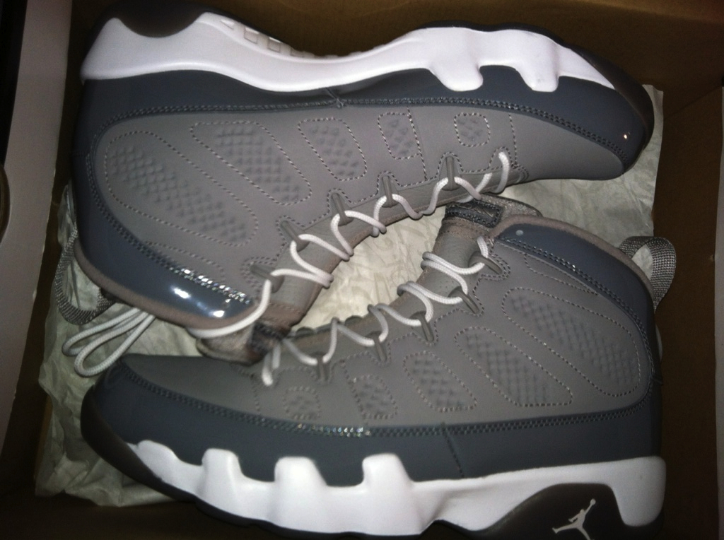 Air Jordan Cool Grey 9 (2012)